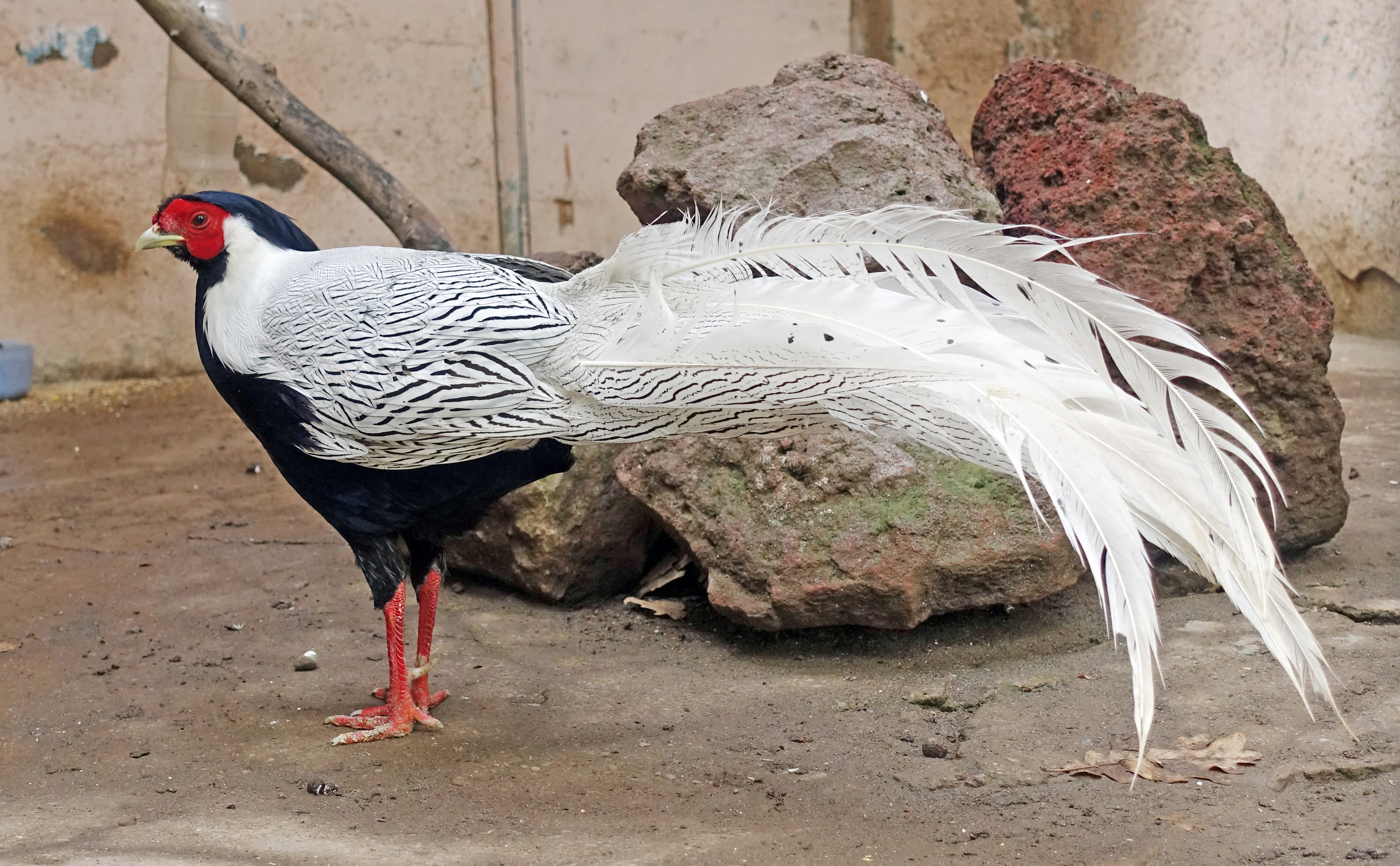 Silver Pheasant in Yerevan zoo.